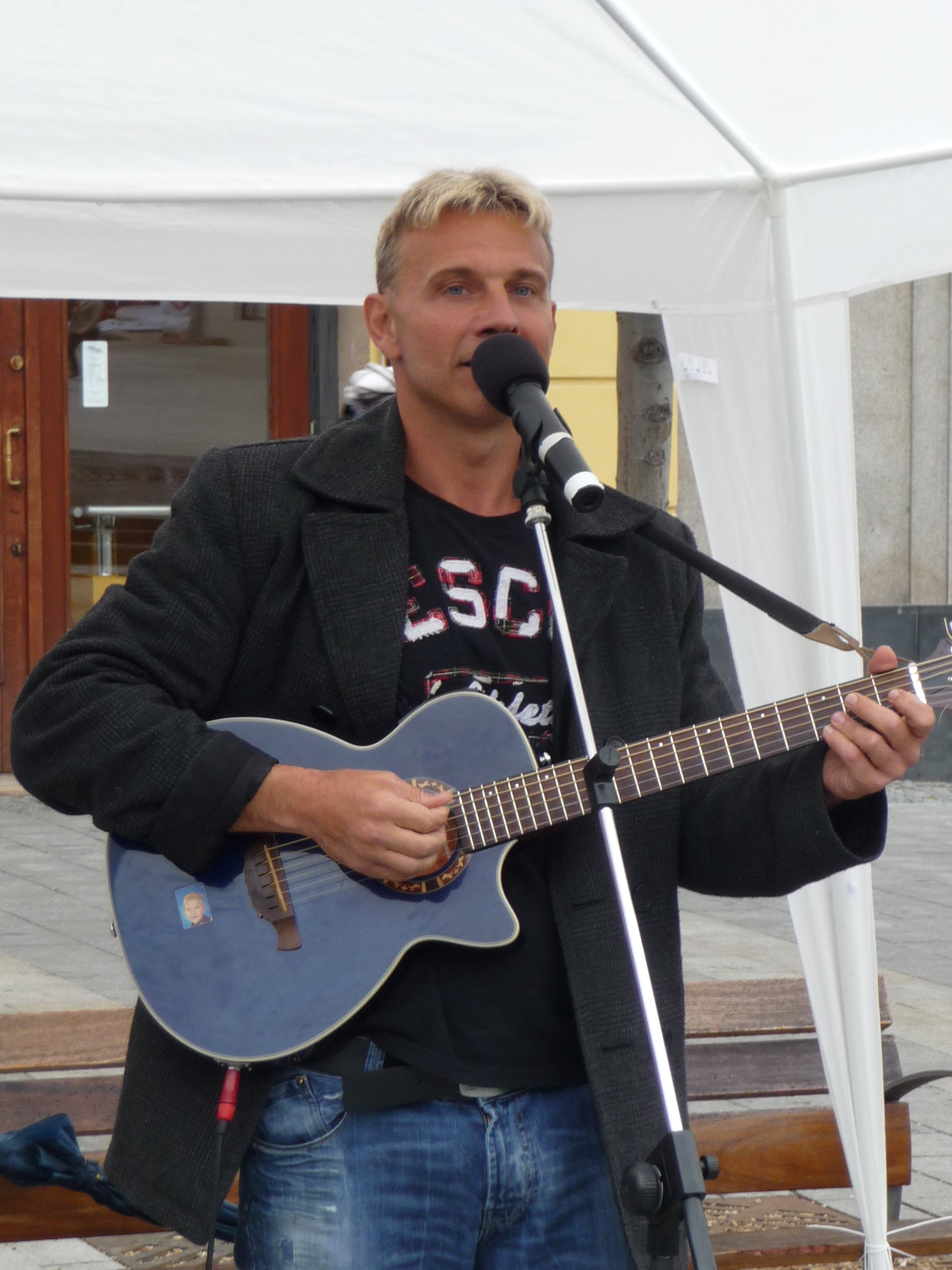 Czech singer Martin Maxa on election meeting of KSČM, Freedom Square, Brno